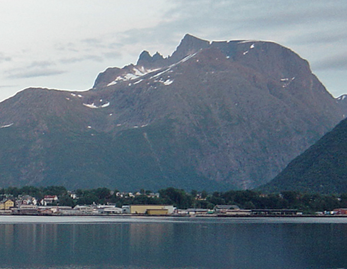 Trolltindan, near (and) Åndalsnes, in Norway